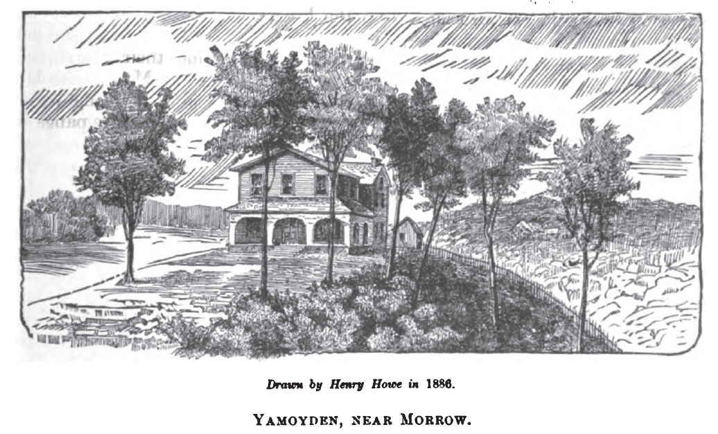 Home of author Edward Deering Mansfield